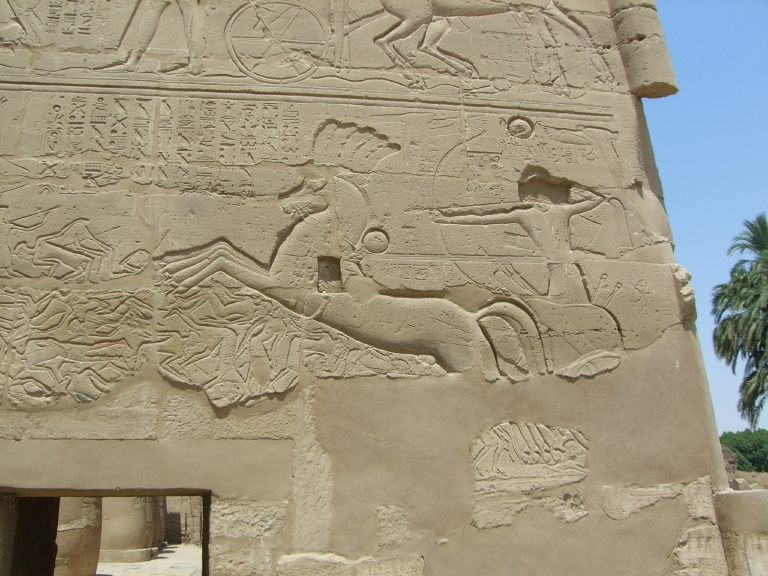 Relief of the northern tower of the 3rd pylon of Karnak, showing the wars of Seti I